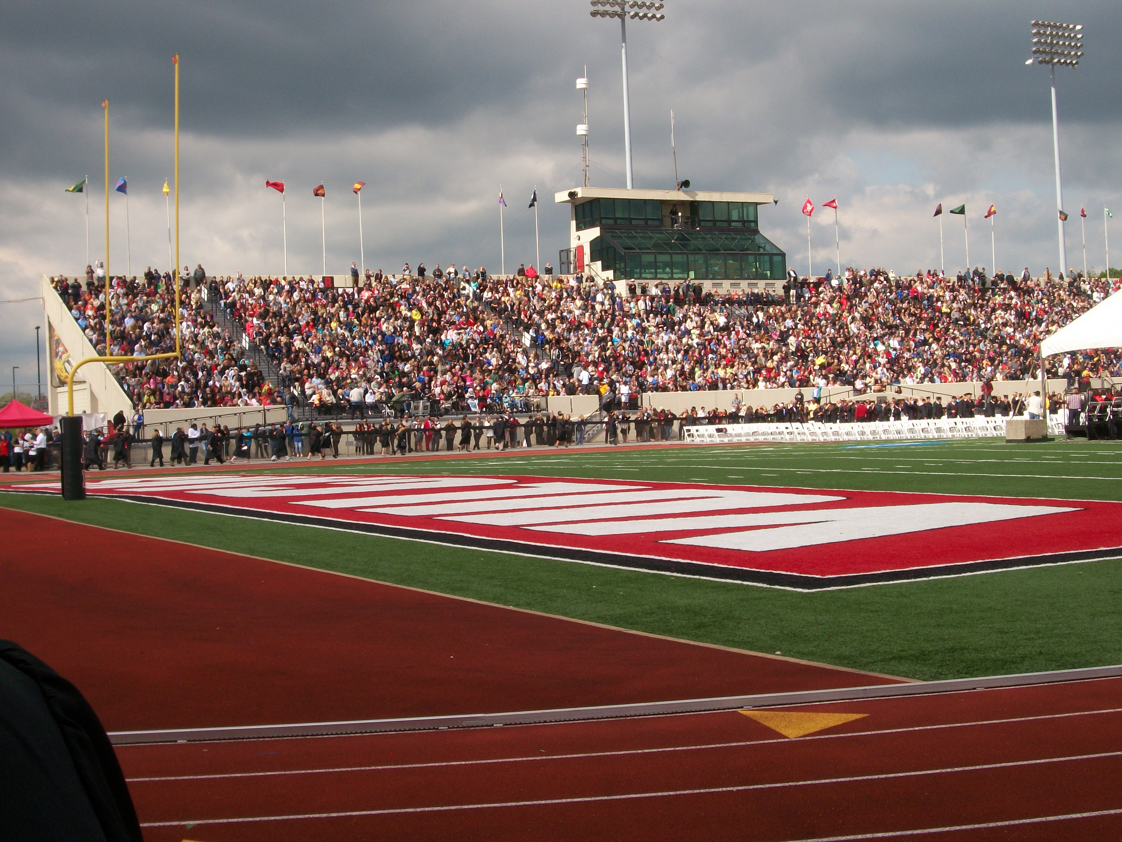 Taken May 8, 2010.